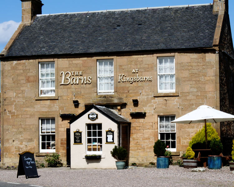 Exterior image of The Barns at Kingsbarns, 18th century coaching inn in Kingsbarns, Fife.